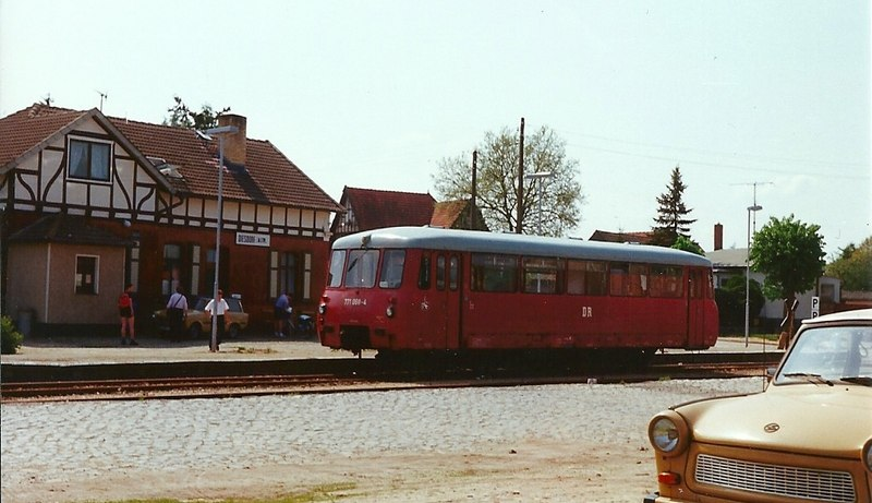 Diesdorf (Altmark) railway station